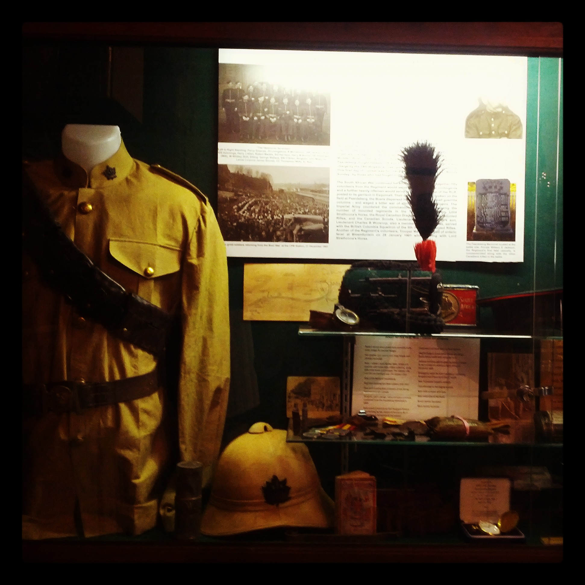 A selection of the collection at the BC Regiment Museum in Vancouver, BC, Canada